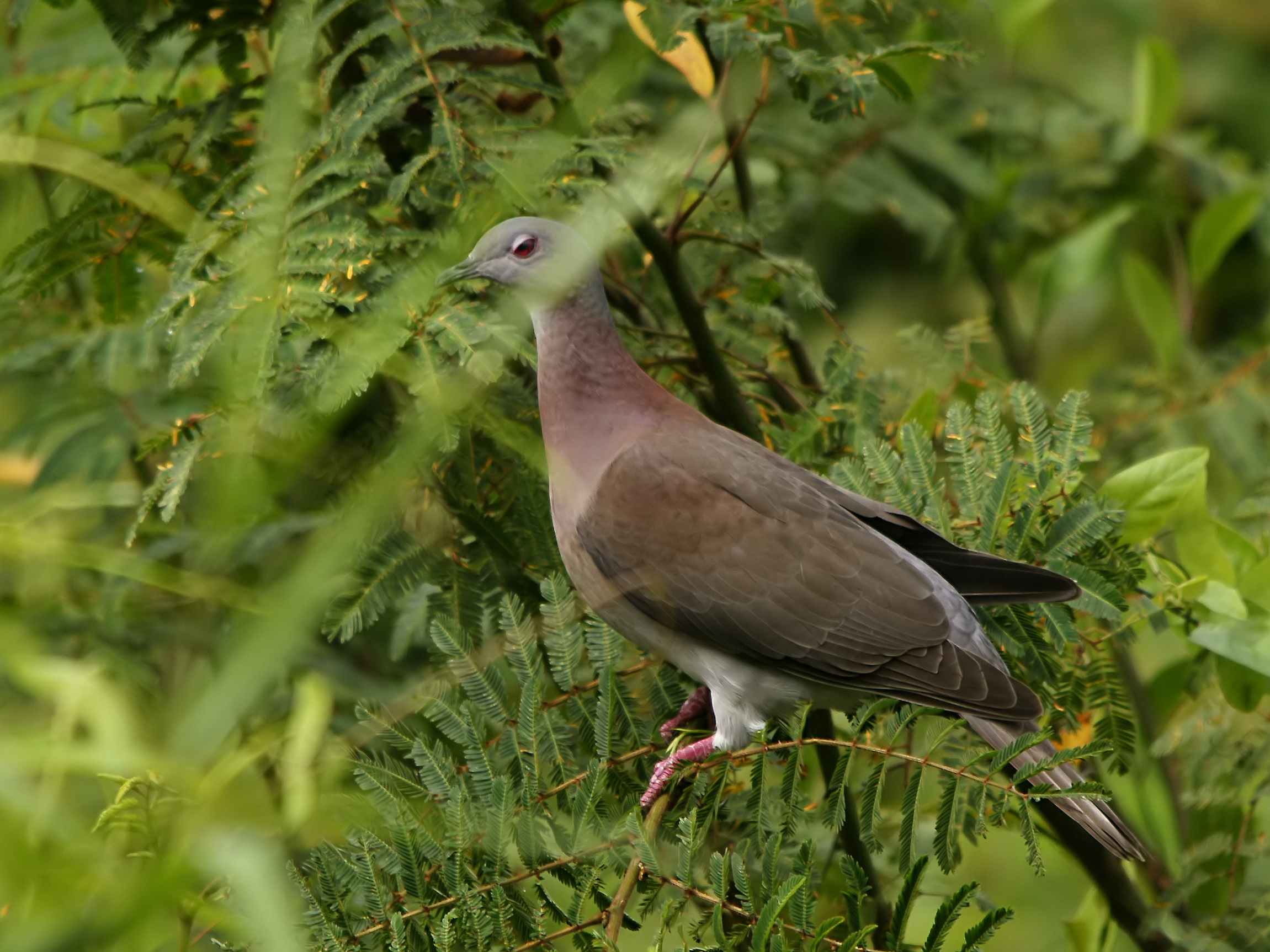 Pale-vented Pigeon at Caño Negro, Costa Rica